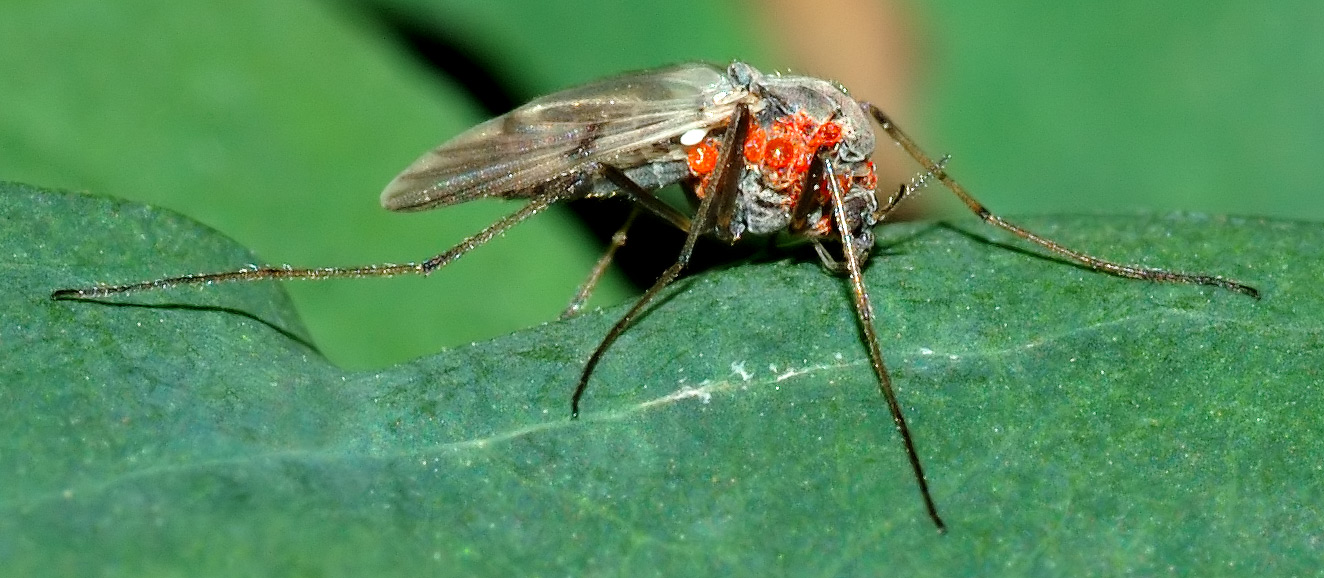 This image shows an only 0.14 x 0.07 inch (3.6 mm x 1.7 mm) gnat with hydrachnidias from the side. The precise species are still unknown, any help in identifying it would be greatly appreciated.